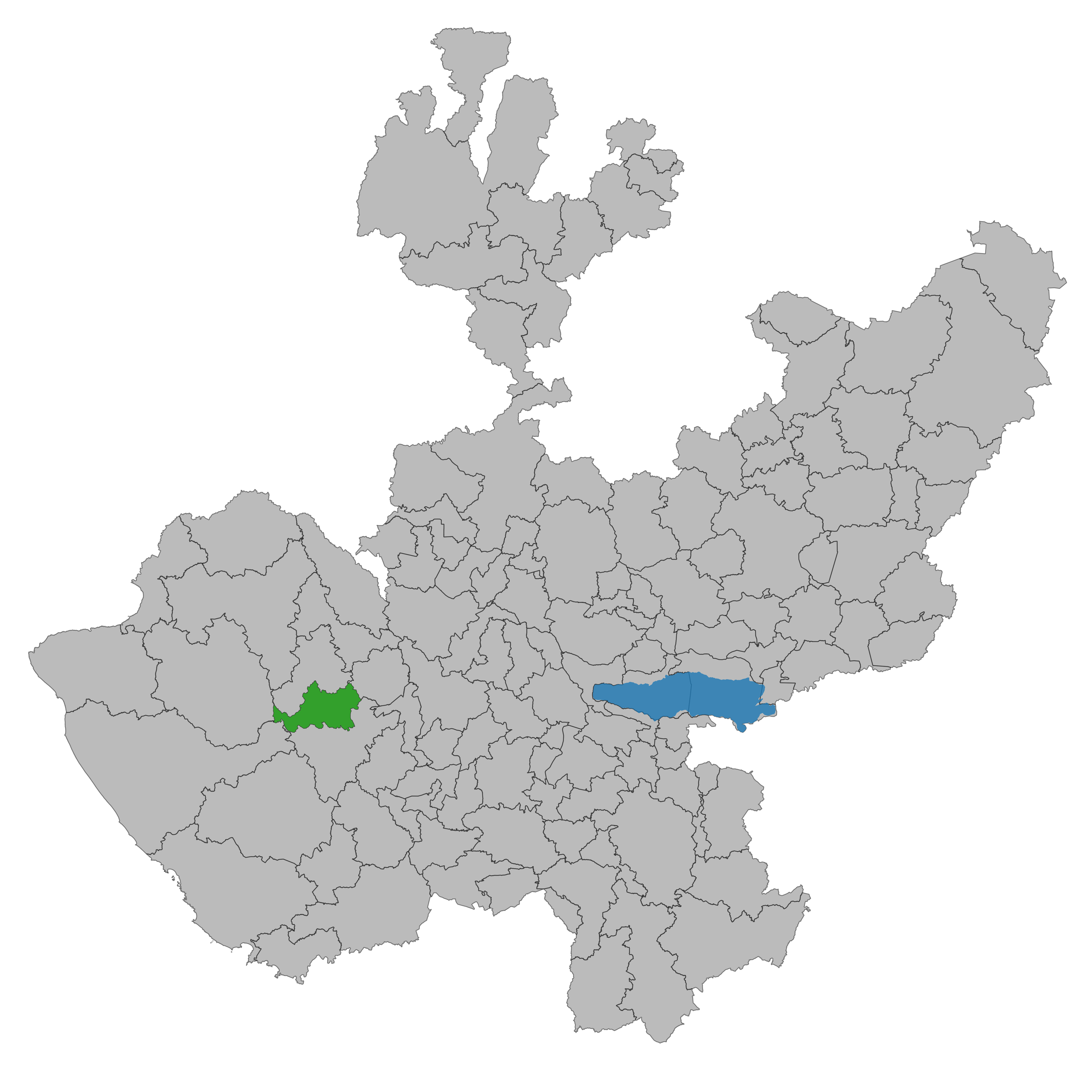 Municipality of Jalisco. Prepared with the software QGIS version 2.8.2 Wien & with information of SCINCE 2010 version 05/2013